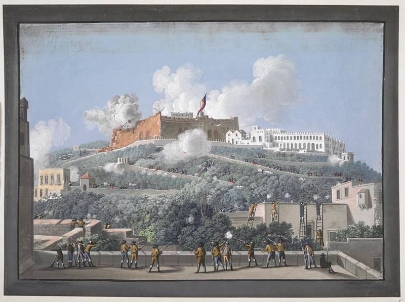 Naples - Attack on the Castle of St. Elmo, on the 9th of June 1799.